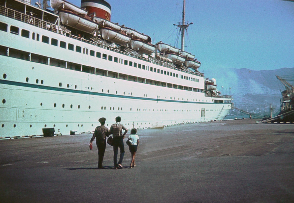 Last day of steamship Admiral Nakhimov in Port of Novorossiysk before disaster 31 August 1986